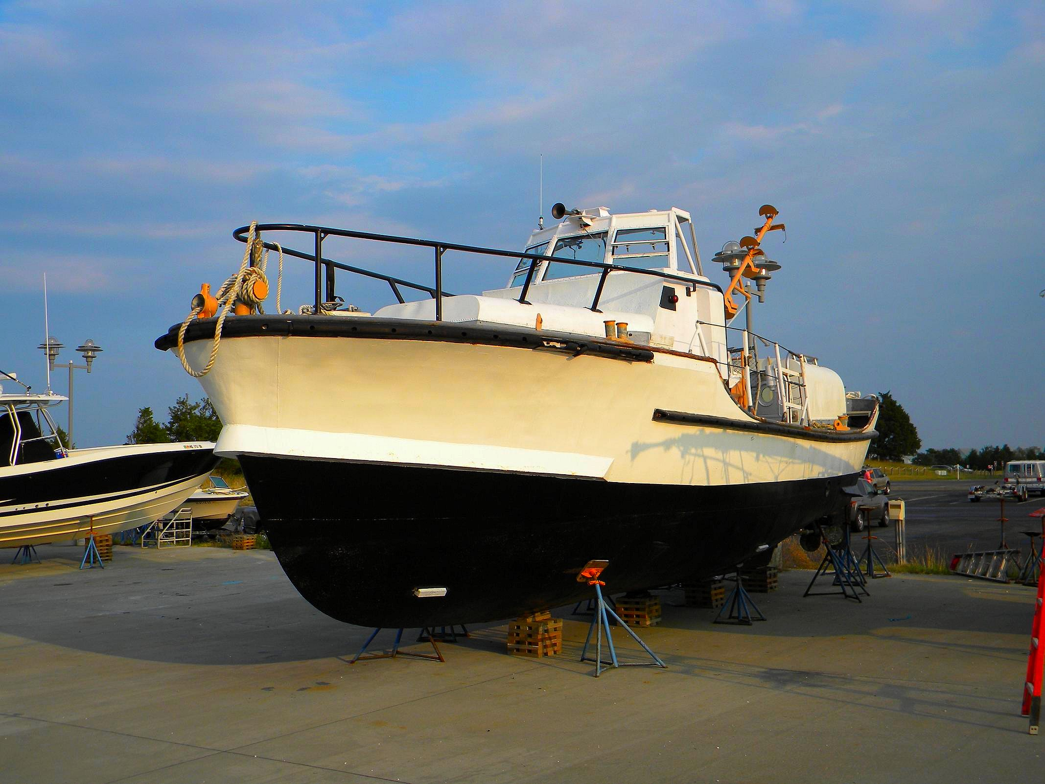 An old Coast Guard Patrol boat in drydock at the Delaware Seashore State Park Marina.